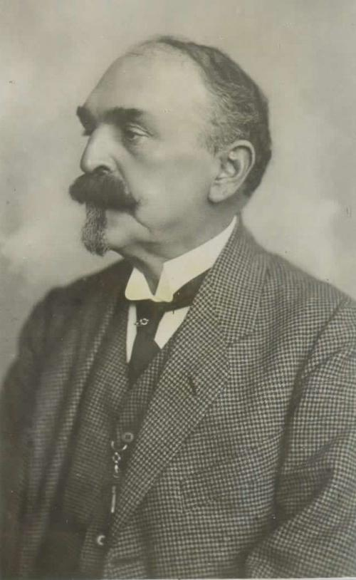 Albin Belar (1864-1939), slovenian invetor and seismologist